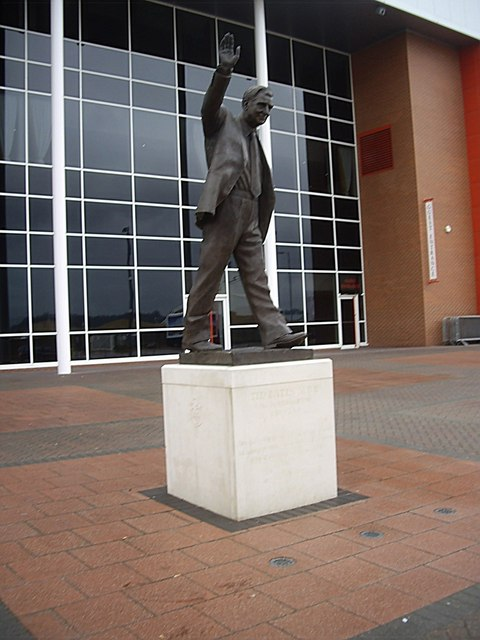 'Mr Southampton' Monument to Ted Bates. Plinth inscription reads: TED BATES MBE Mr Southampton 1918-2003 This statue has been erected by fans, friends, and colleagues in recognition of Ted's 66 years of loyal service to our great club.